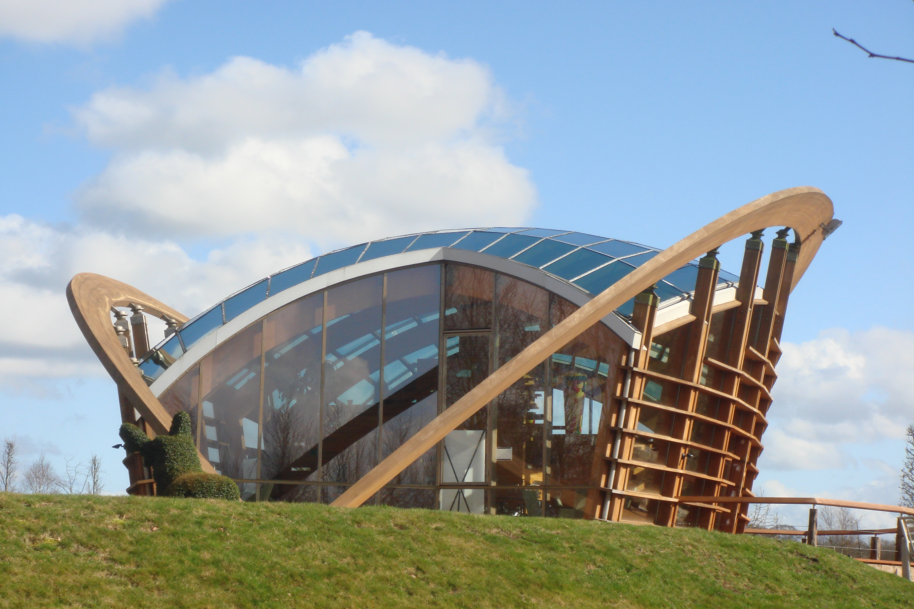 gebogen heko spanten houtsoort Iroko